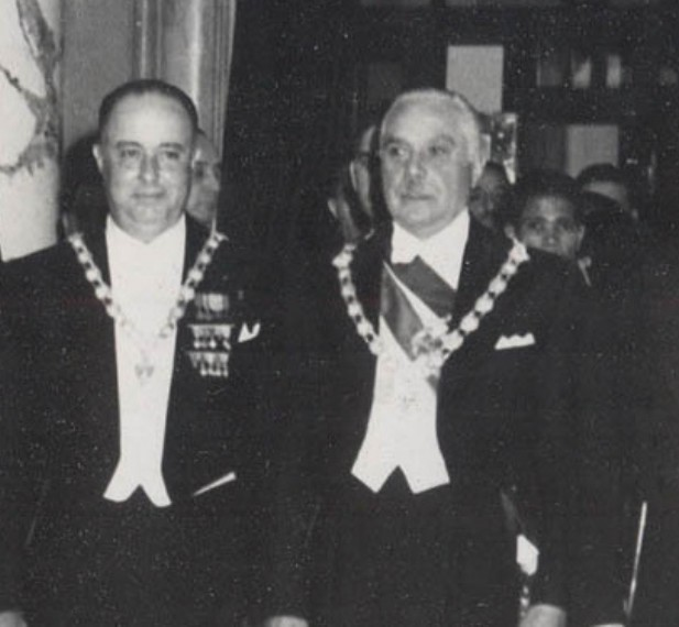 Rafael Trujillo (center) of the Dominican Republic and President Anastasio Somoza Garcia of Nicaragua, the later on an official visit to Ciudad Trujillo (Santo Domingo) for the August 1952 inauguration of Hector Trujillo as figurehead president of the Dominican Republic.